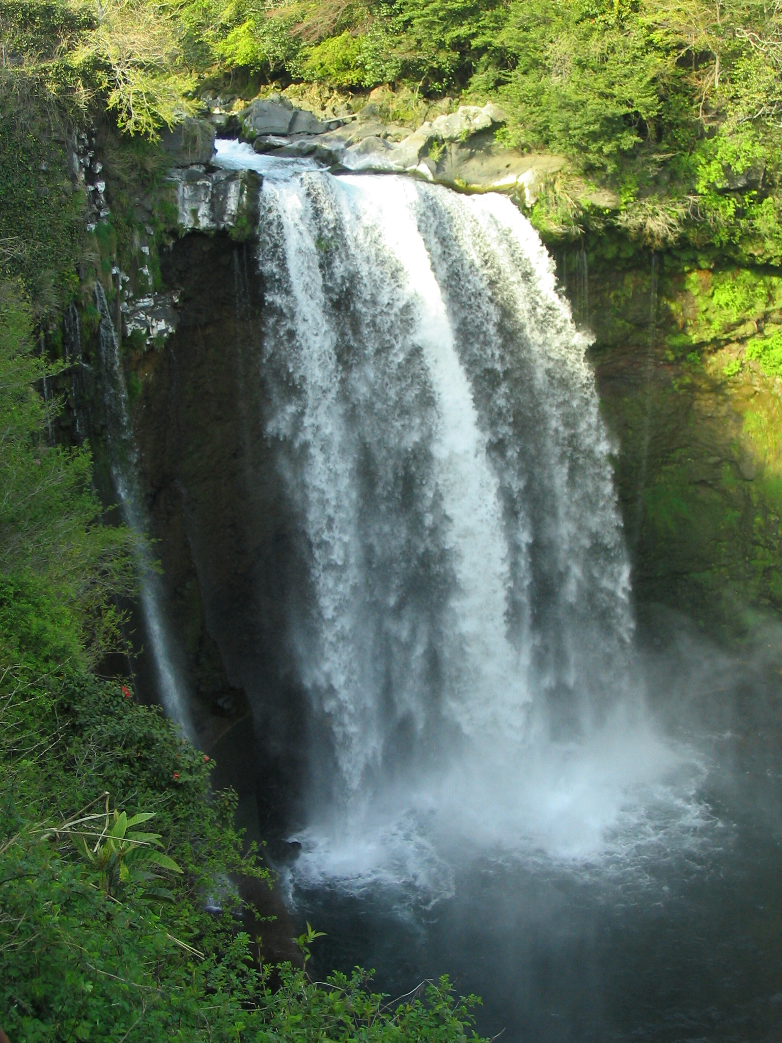 Otodome Falls (Otodome no taki) is a waterfall in Fujinomiya, Shizuoka, Japan.